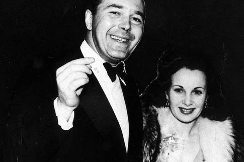 Prince Bertil of Sweden with Mrs. Lillian Craig. They got married in 1976 and Mrs. Craig became Princess Lillian of Sweden.